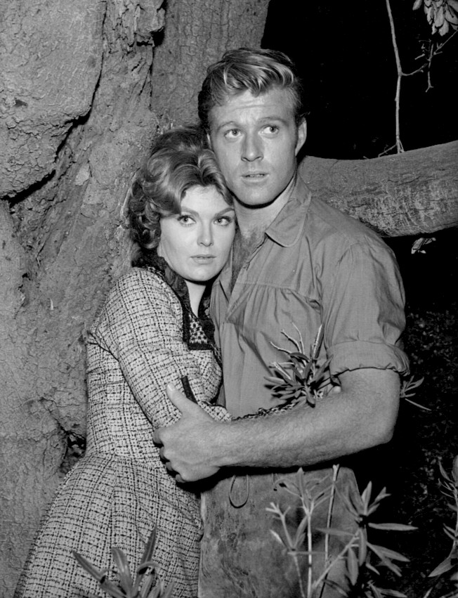 Template:EN